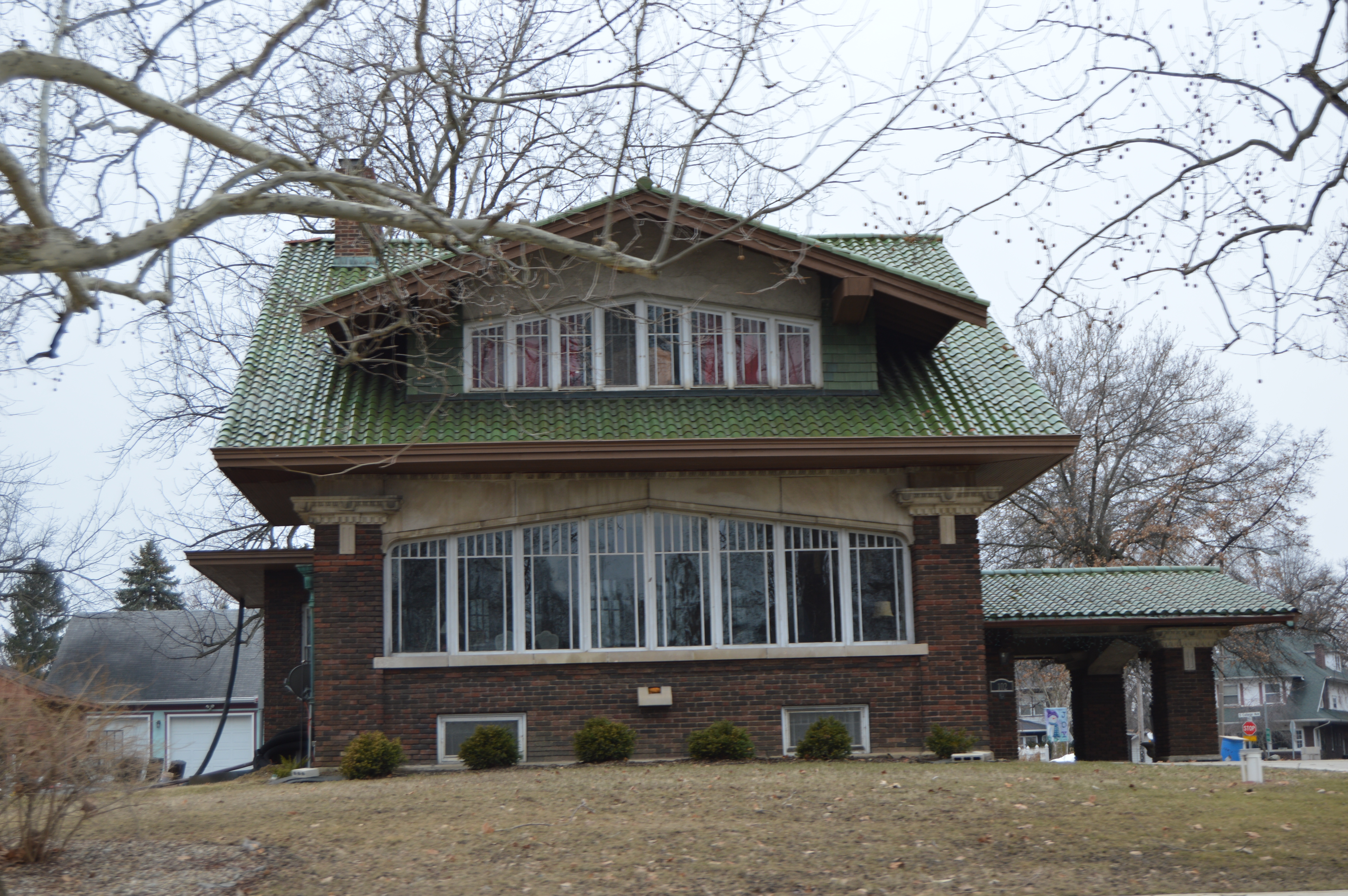 Front of the Oren F. and Adelia Parker House, located at 102 S. Park Avenue along U.S. Route 231 in Rensselaer, Indiana, United States. Built in 1915, it is listed on the National Register of Historic Places.